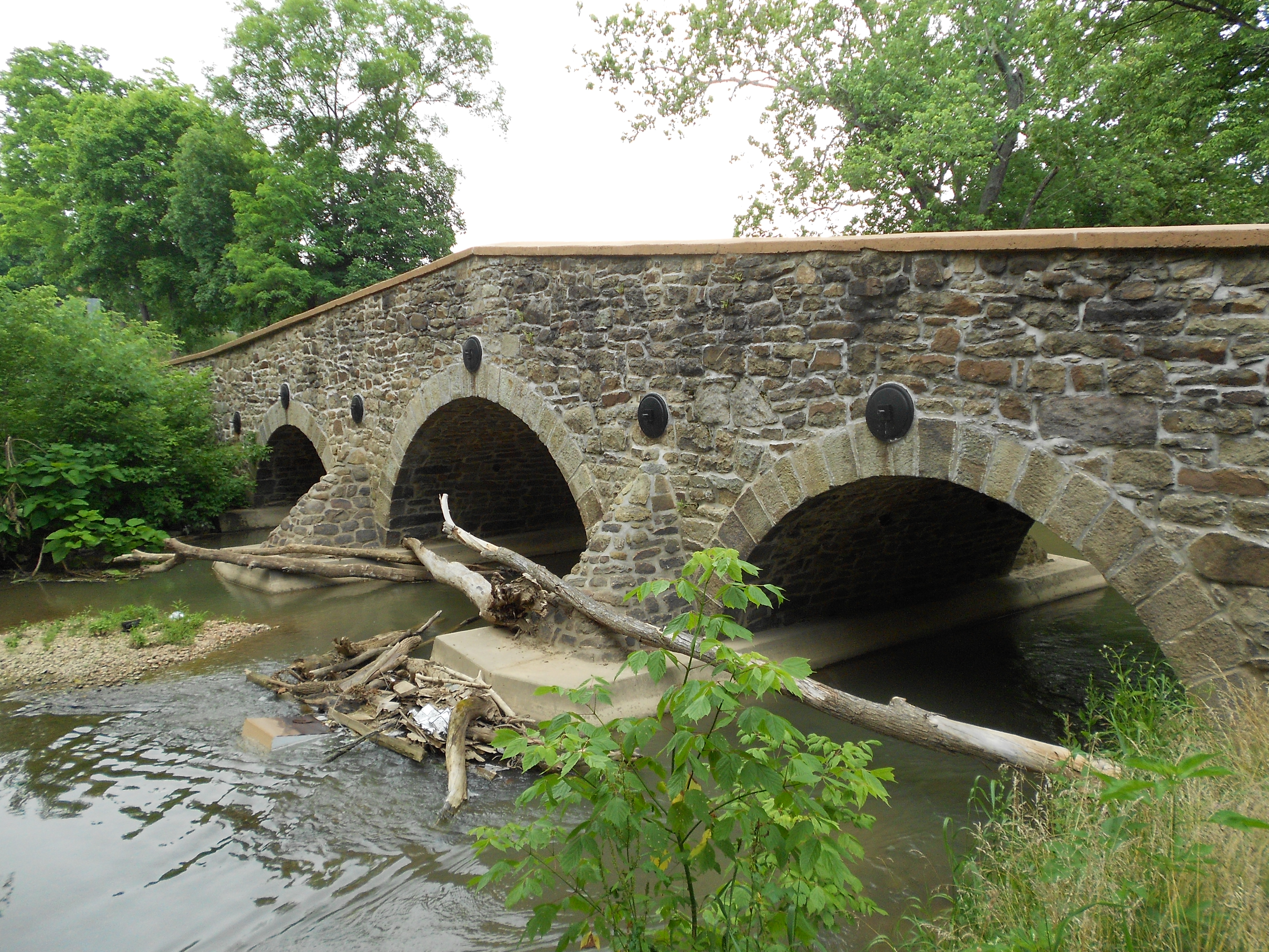 John's Burnt Mill Bridge, or Camelback Bridge, SW of New Oxford on Township 428, Mount Pleasant Township, Adams County, Pennsylvania crossing over to Oxford Township Area: less than one acre Built: 1800 Added to NRHP: December 16, 1974